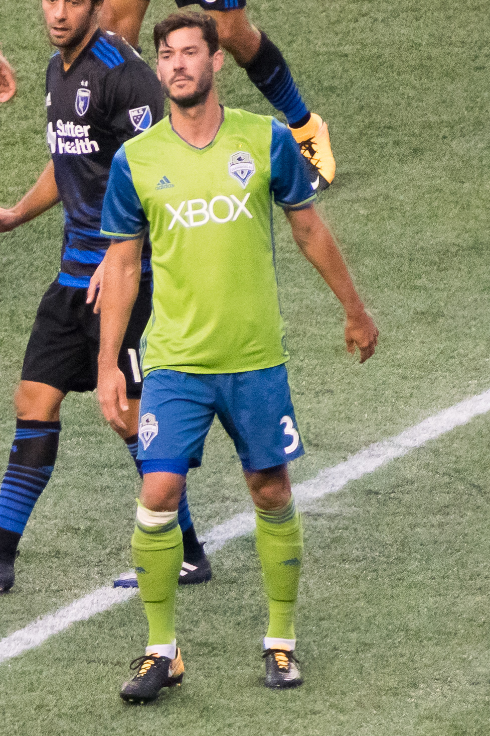 Brad Evans during Seattle Sounders FC vs. San Jose Earthquakes on July 23, 2017